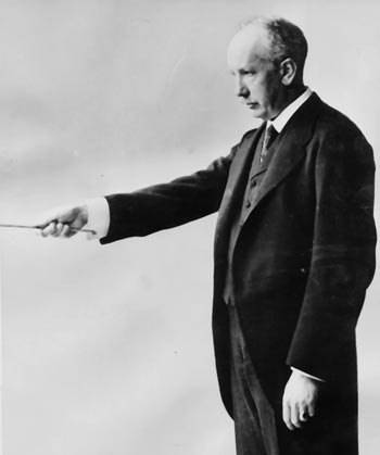 German composer Richard Strauss.